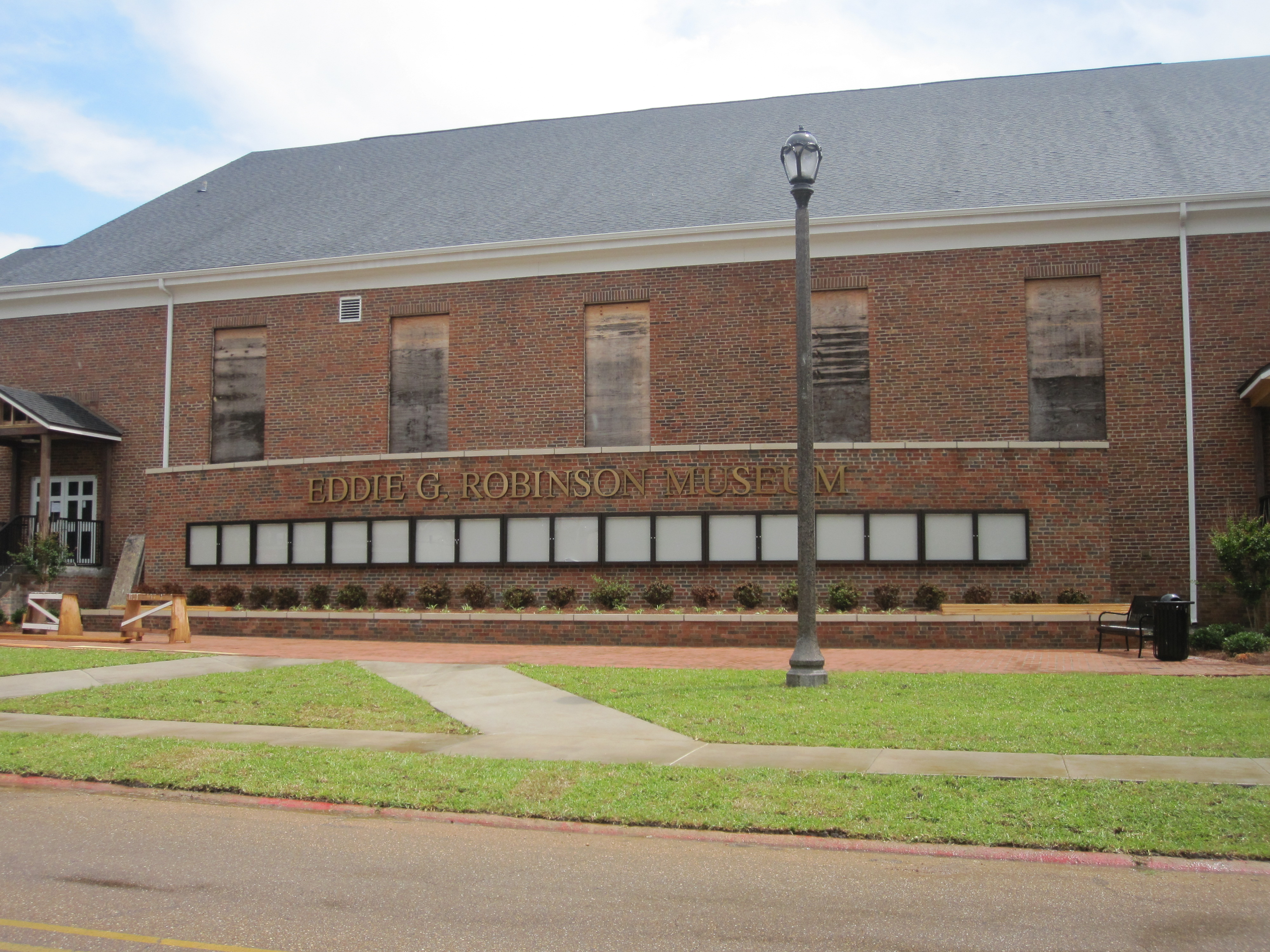 I took photo with Canon camera.